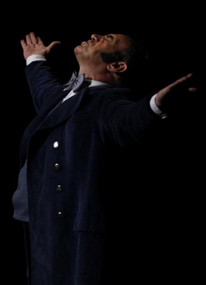 Hassan Mehmani